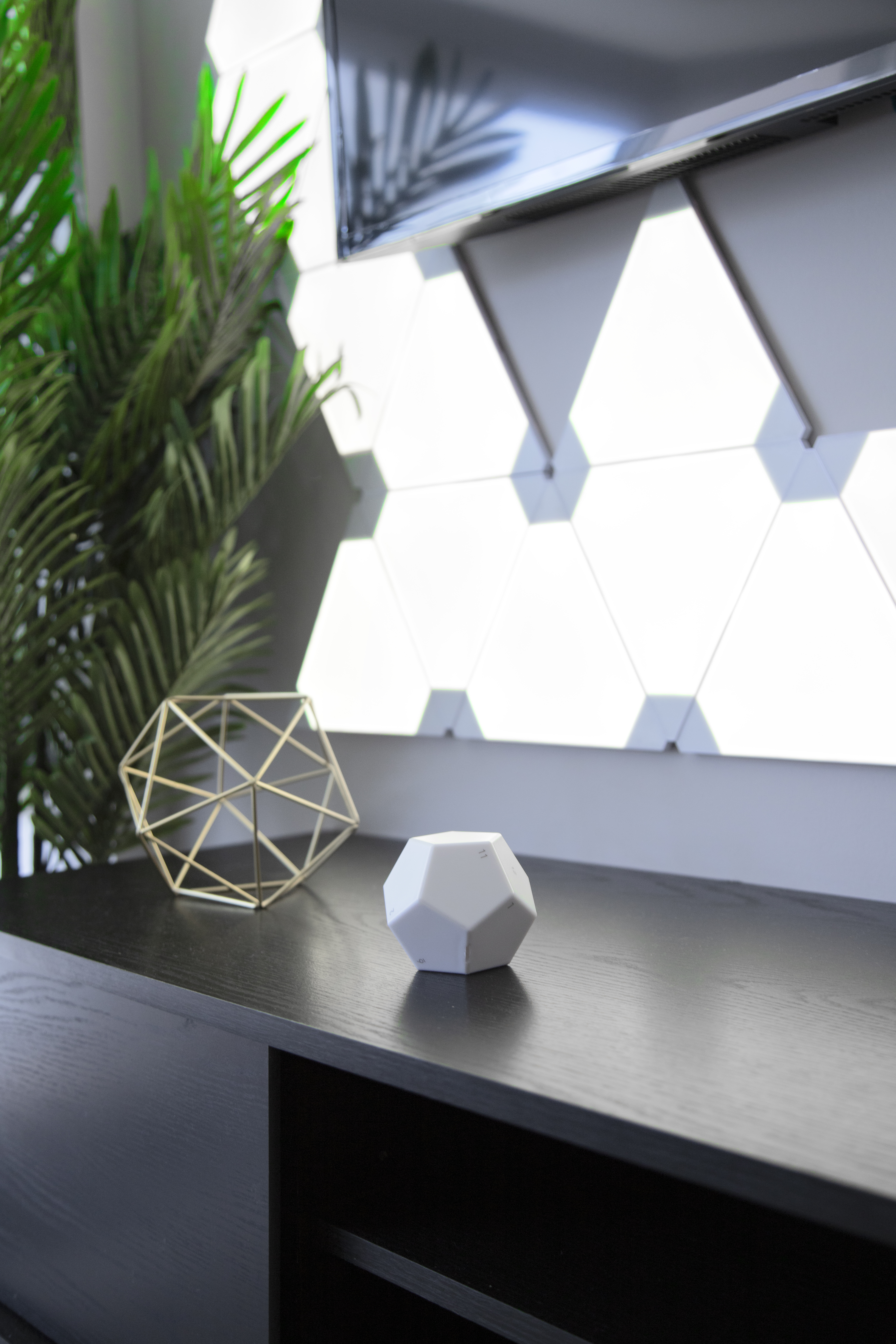 Nanoleaf Light Panels and Remote